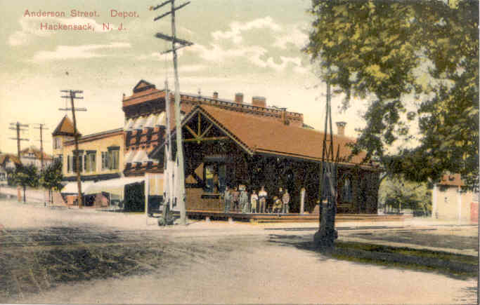 The Anderson Street station facing southward towards the station building.